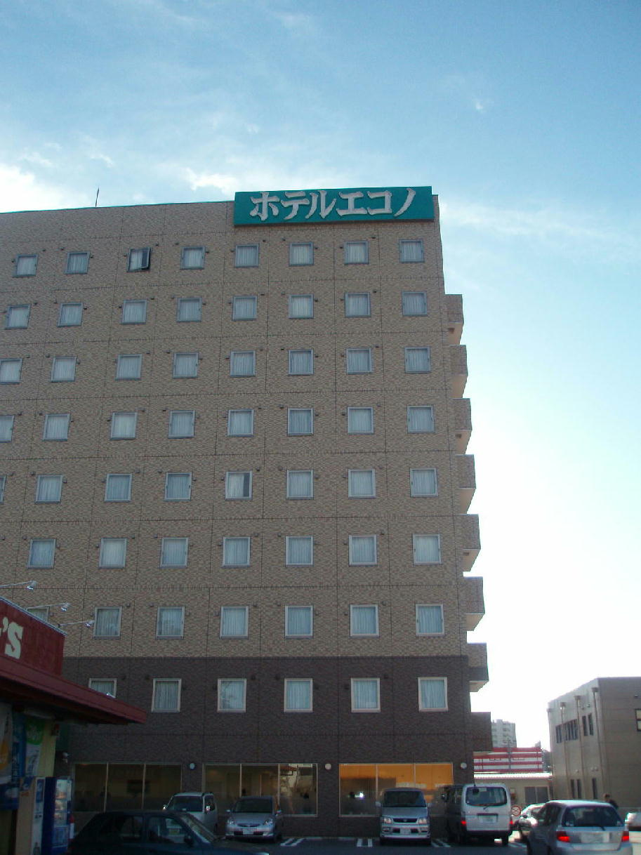 Hotel Econo Kameyama, (Kameyama, Mie)